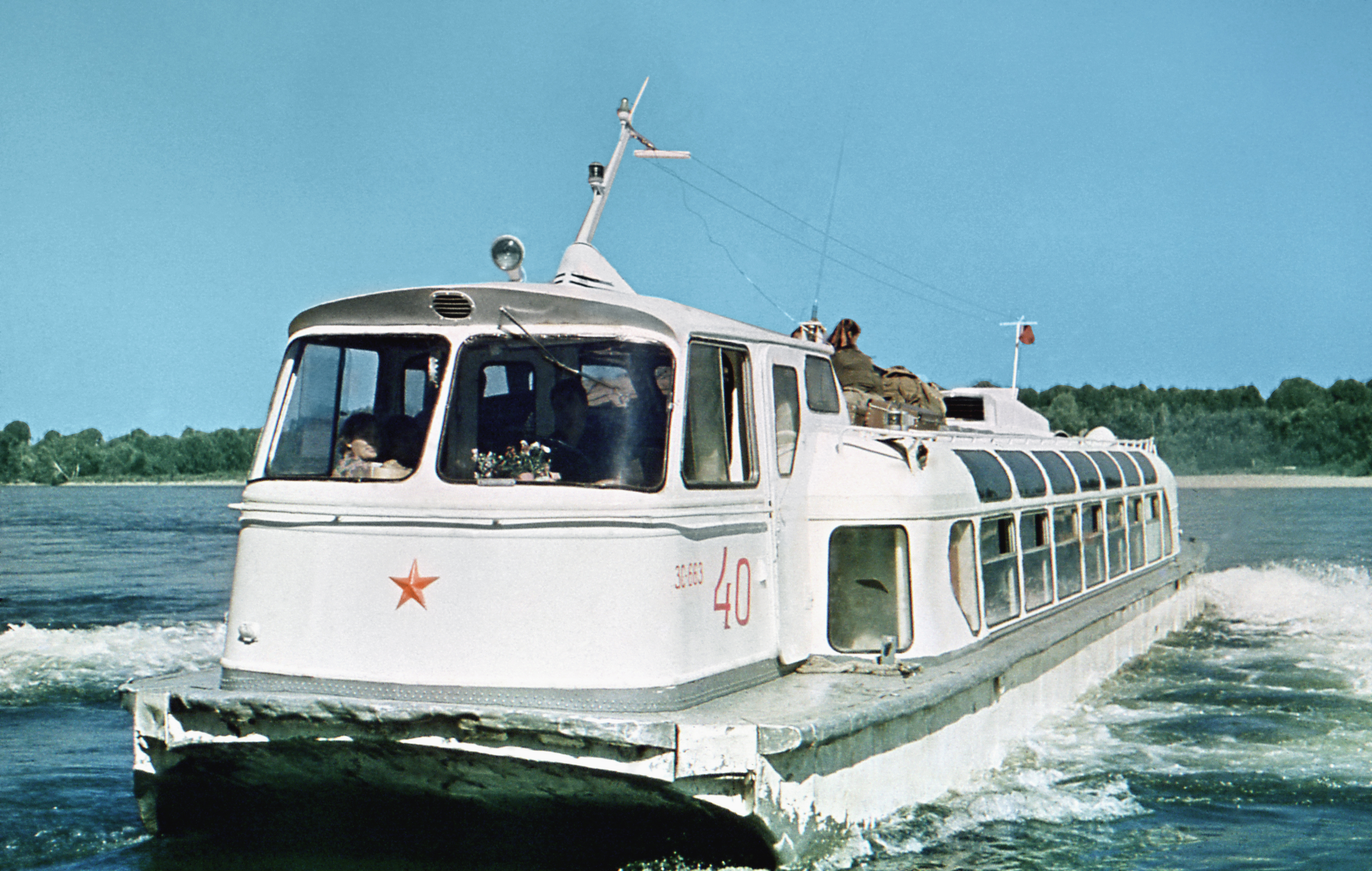 Ship Zarya-40 on Biya river